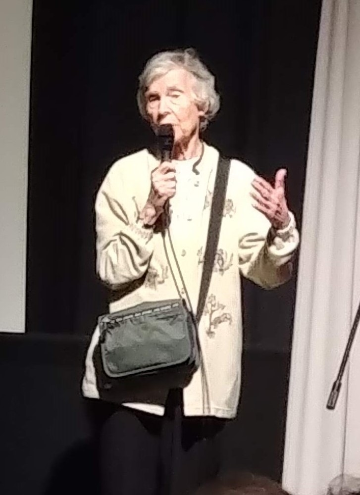 Anne Innis Dagg speaking at a Waterloo, Ontario showing of The Woman Who Loves Giraffes on November 30, 2018.